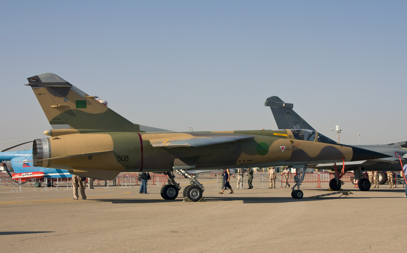 Fresh from the paint shop after overhaul by Dassault. During the revolution this Mirage flew to Malta.